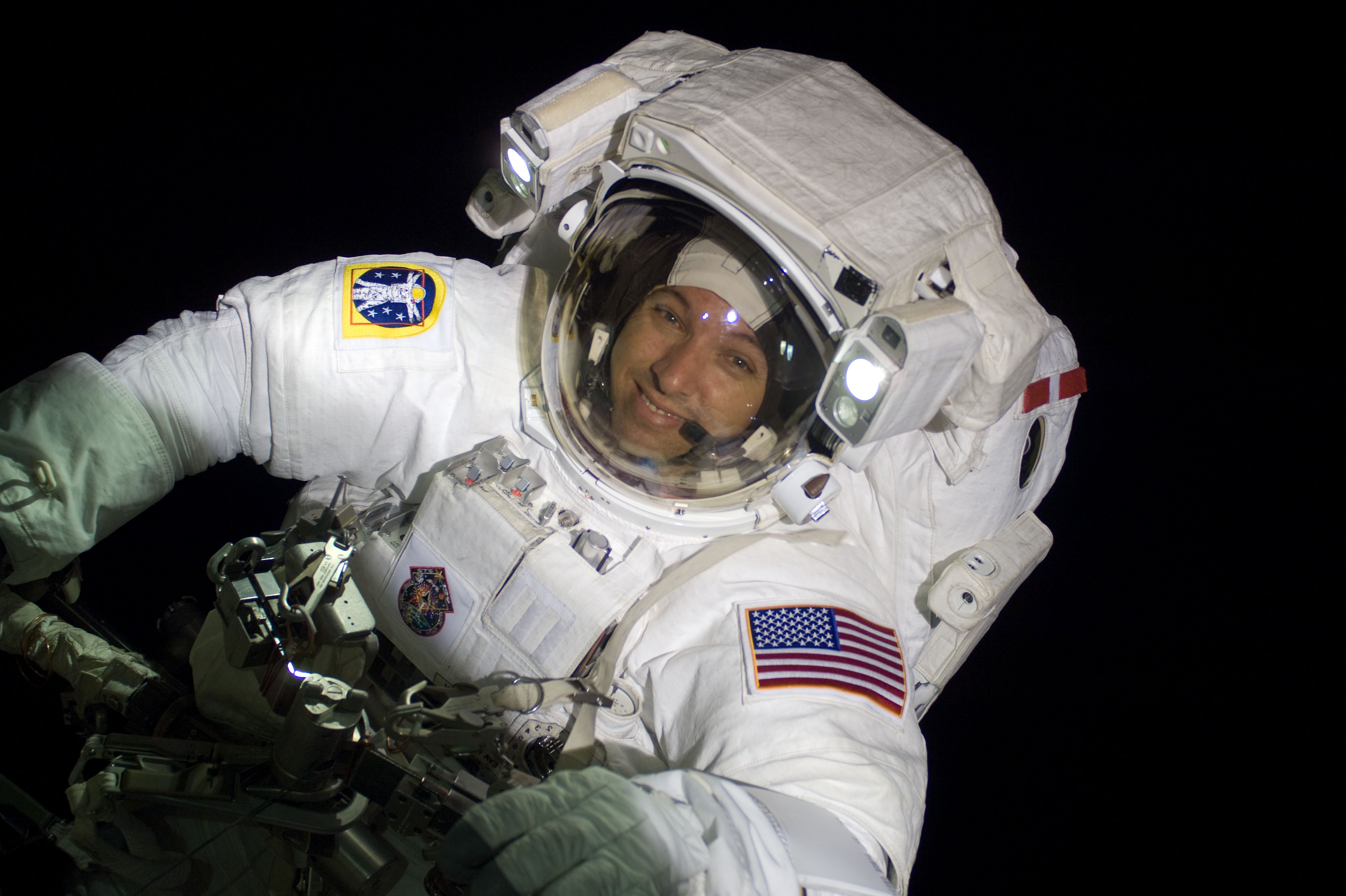 Astronaut Randy Bresnik, STS-129 mission specialist, participates in the mission's third and final session of extravehicular activity (EVA) as construction and maintenance continue on the International Space Station. During the five-hour, 42-minute spacewalk, Bresnik and Robert L. Satcher Jr. (out of frame), mission specialist, removed a pair of micrometeoroid and orbital debris shields from the Quest airlock and strapped them to the External Stowage Platform #2, then moved an articulating foot restraint to the airlock, and released a bolt on a starboard truss ammonia tank assembly (ATA) in preparation for an STS-131 spacewalk that will replace the ATA.